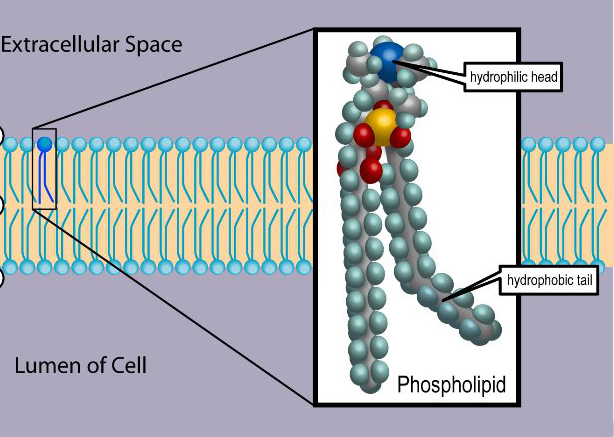 correction in previously uploaded image